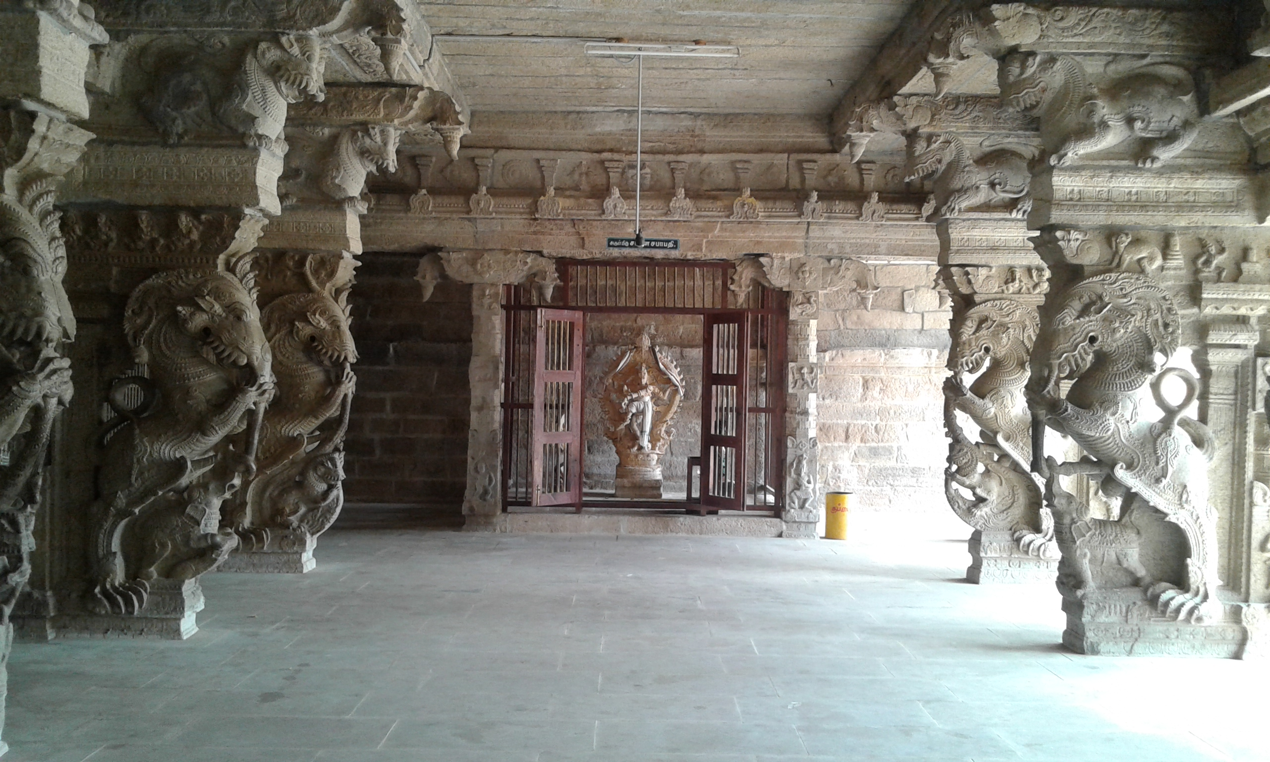 Kailasanathar temple, Srivaikuntam